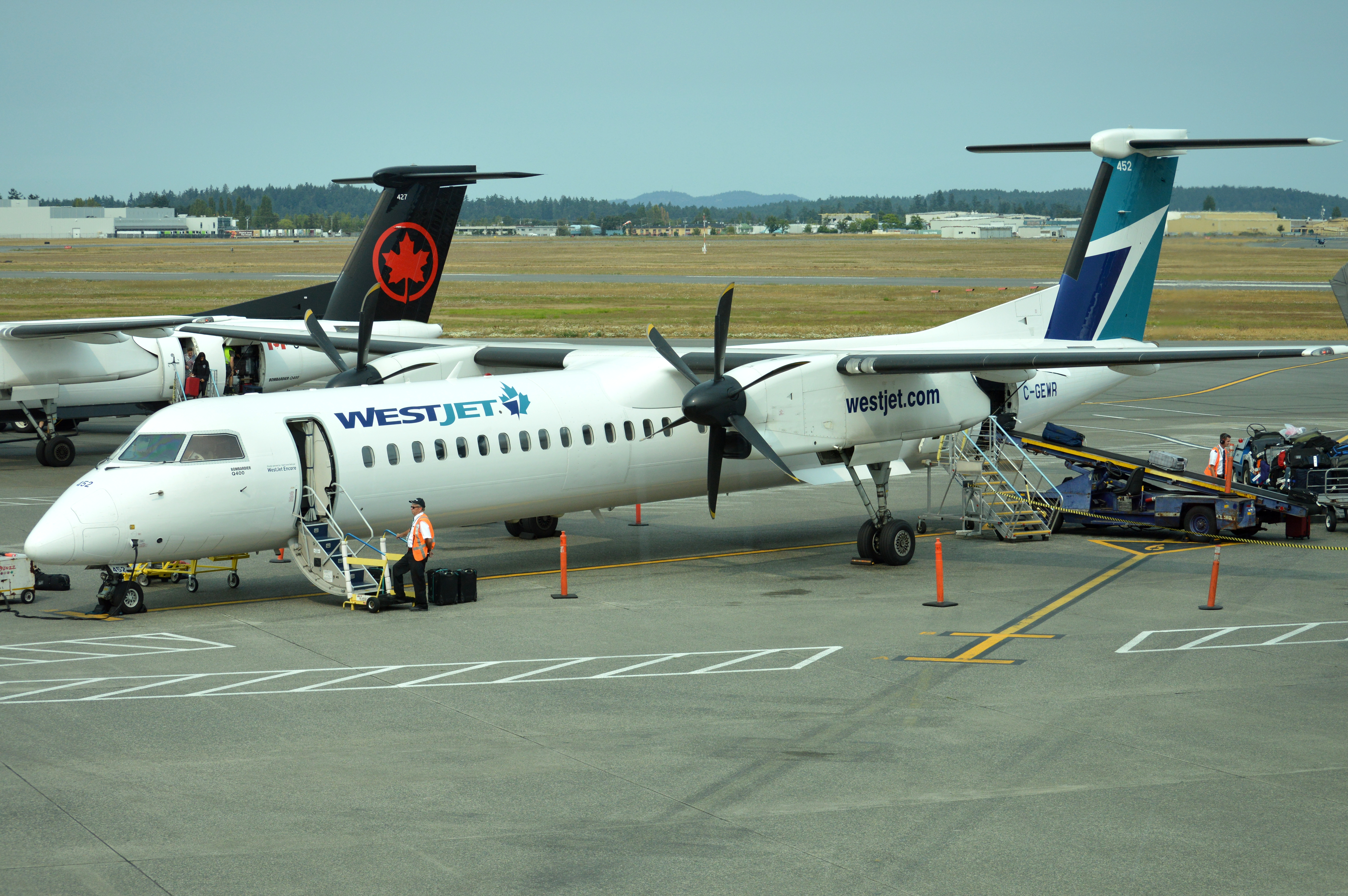 A WestJet Bombardier Q400 (C-GEWR) being unloaded at Victoria International Airport (YYJ), August 2018.